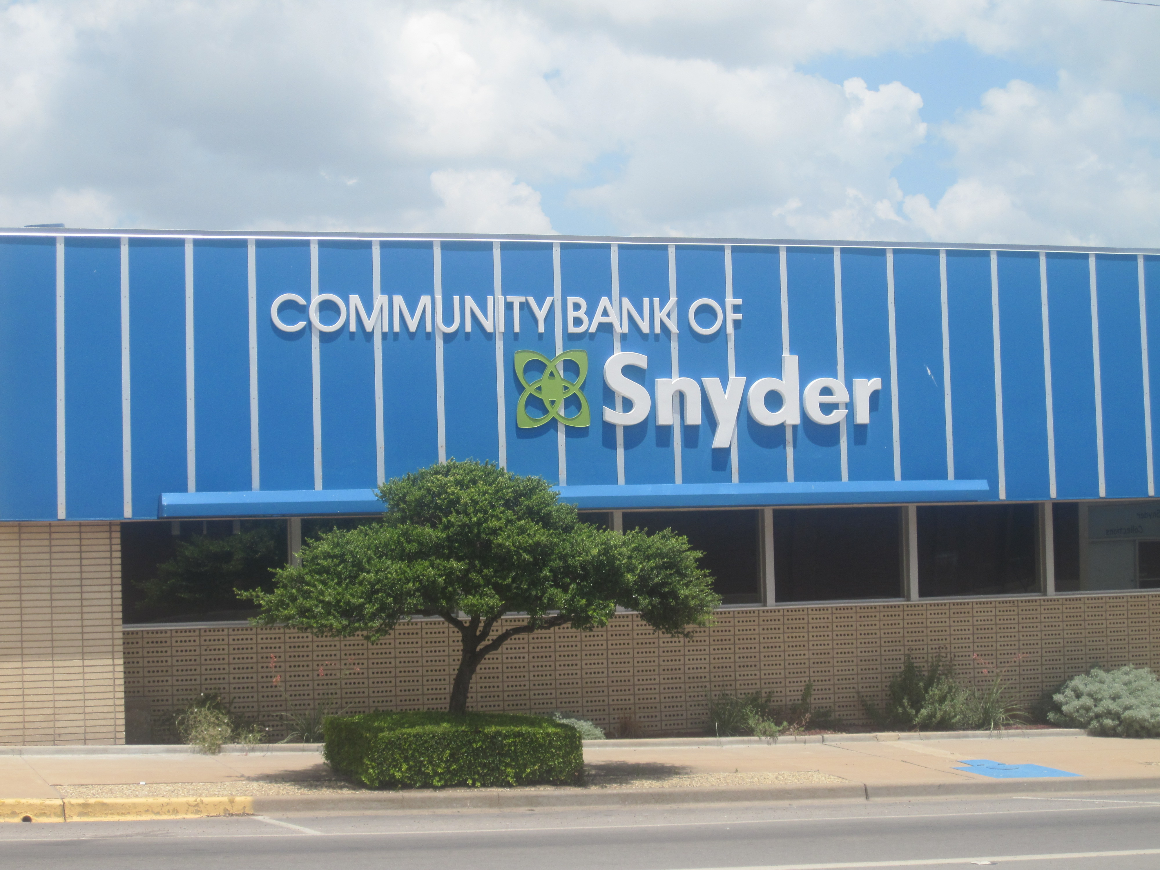 I took photo with Canon camera in Snyder, TX.